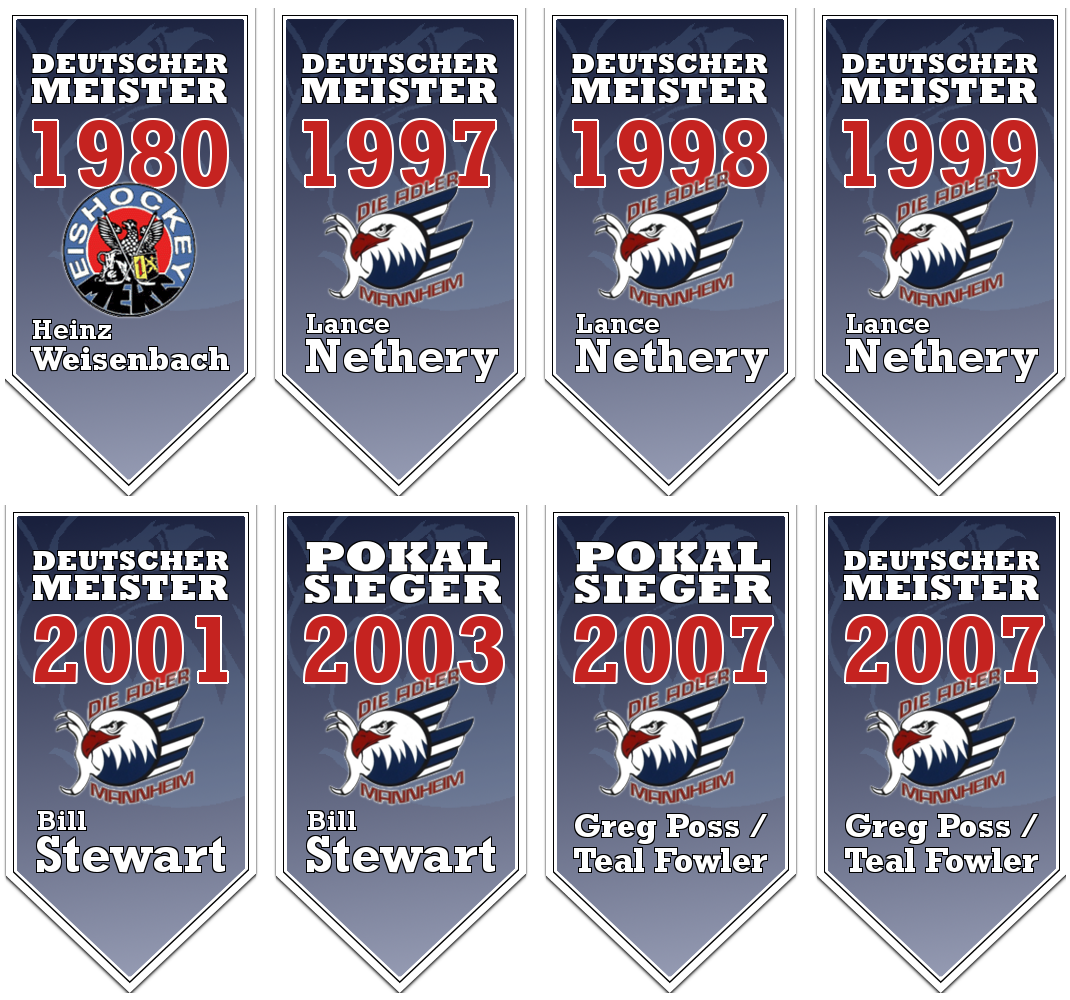 Championship banners of the Adler Mannheim at the SAP-Arena, uses the GFDL picture Image:Mannheim-Adler-Logo.jpg